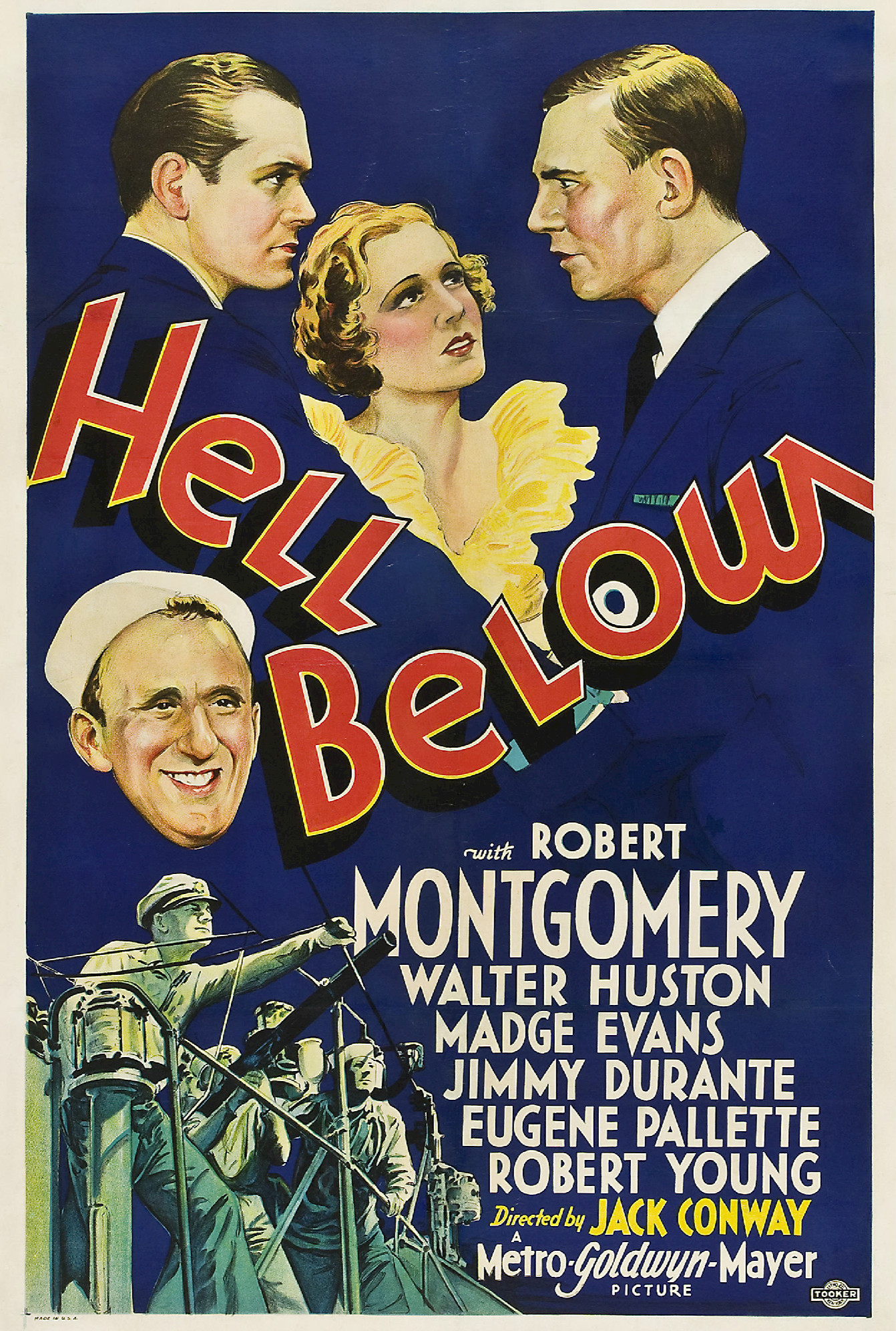 Poster for the 1933 film Hell Below. There are no copyright marks. At bottom left is Made in USA. At bottom right is the Tooker Litho Co. logo-they printed the poster.